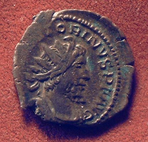 Antoninian of Victorinus emperor of the Gallo-roman empire Victorinus